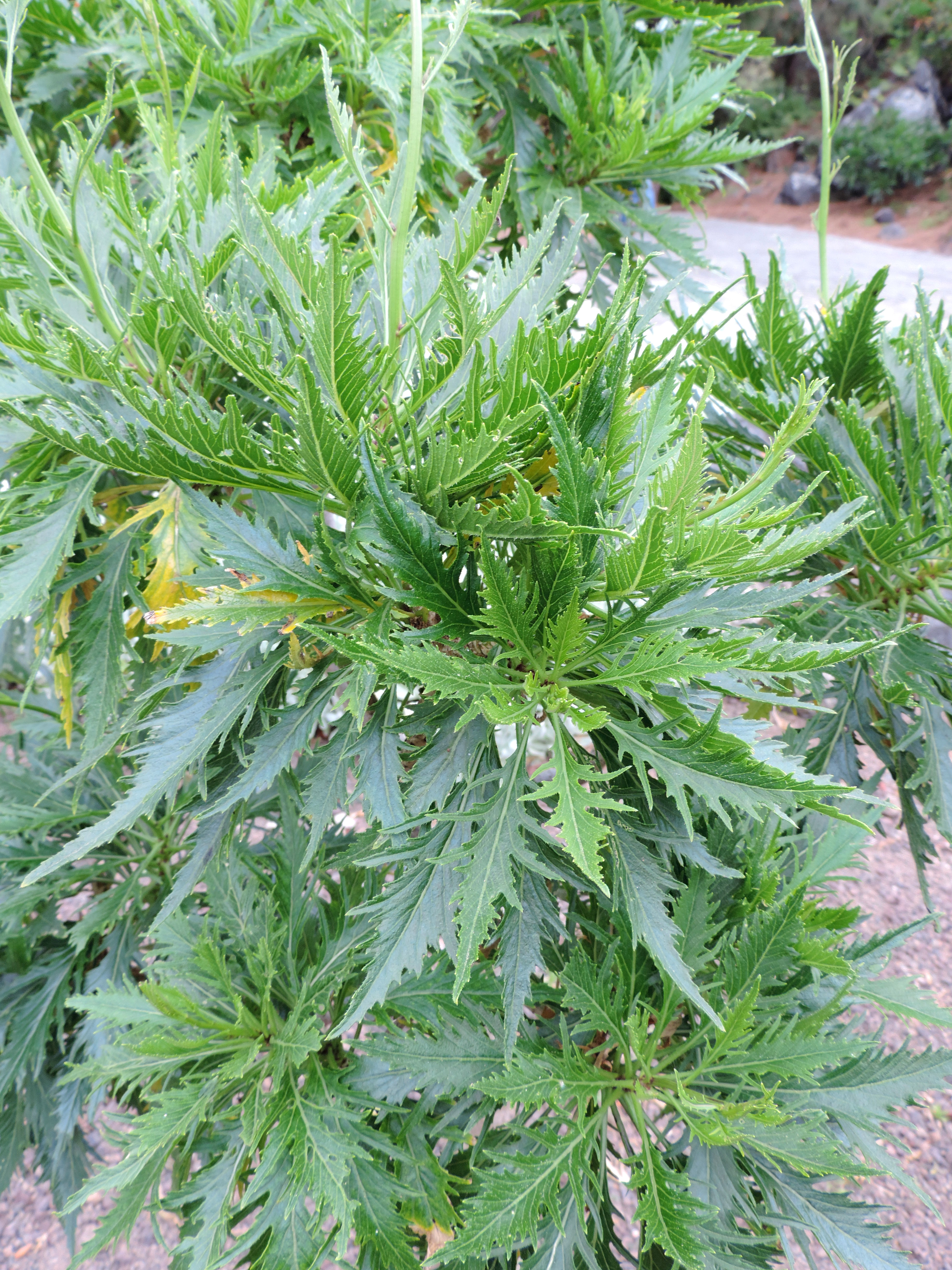 Crambe arborea in Jardín Botánico Canario Viera y Clavijo